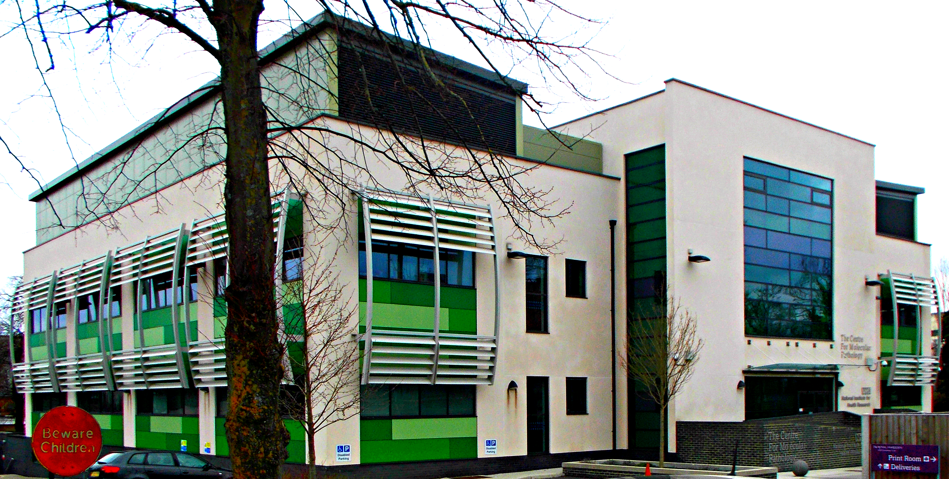 The Institute of Cancer Research, which is on the same site in South Sutton as the Royal Marsden Hospital